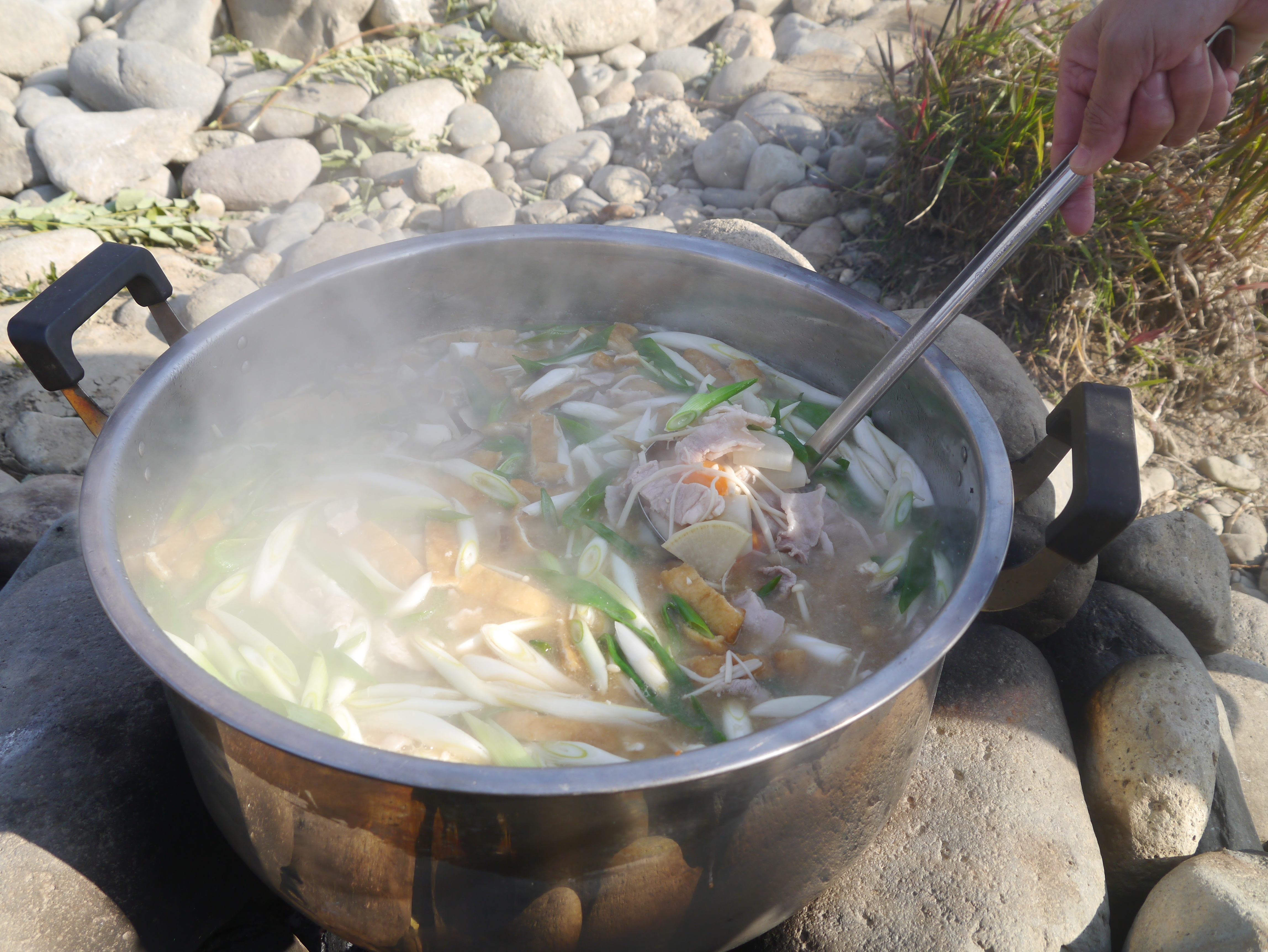 "Imoni" Sendai City - Miyagi Pref Style.